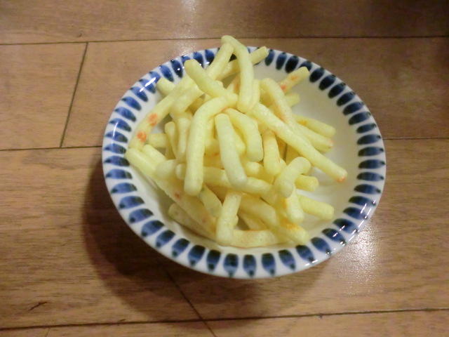 Sapporo Potato (Japanese snack food).